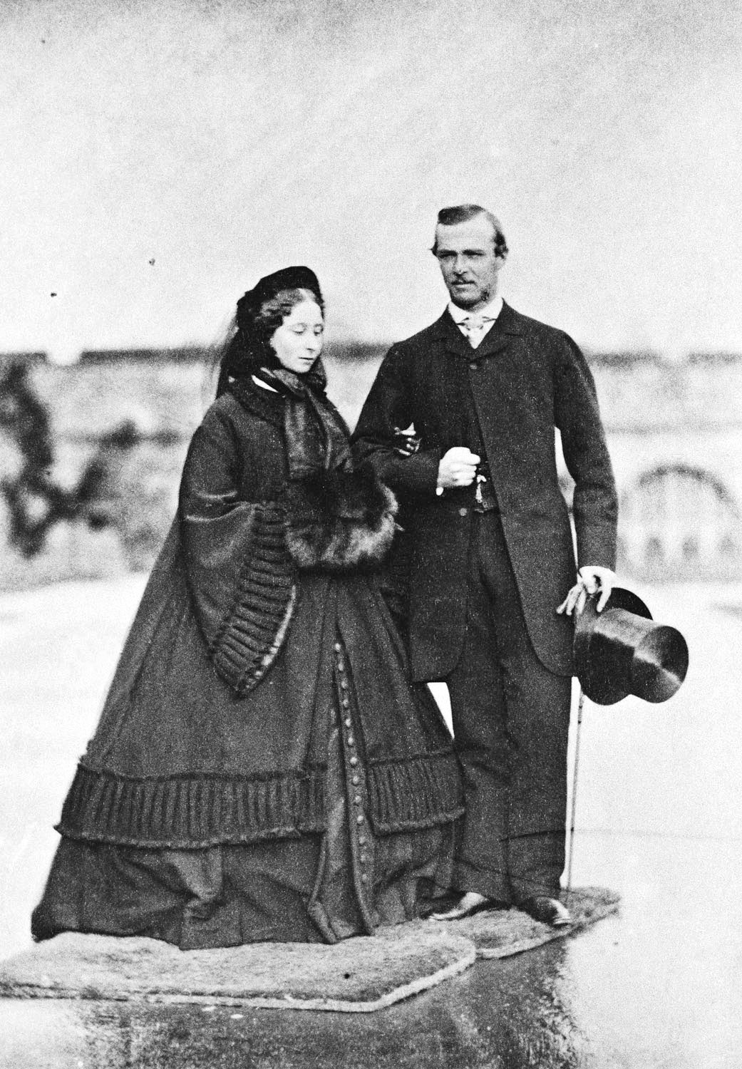 Princess Alice of the United Kingdom, with her fiancée Prince Louis of Hesse and by Rhine.